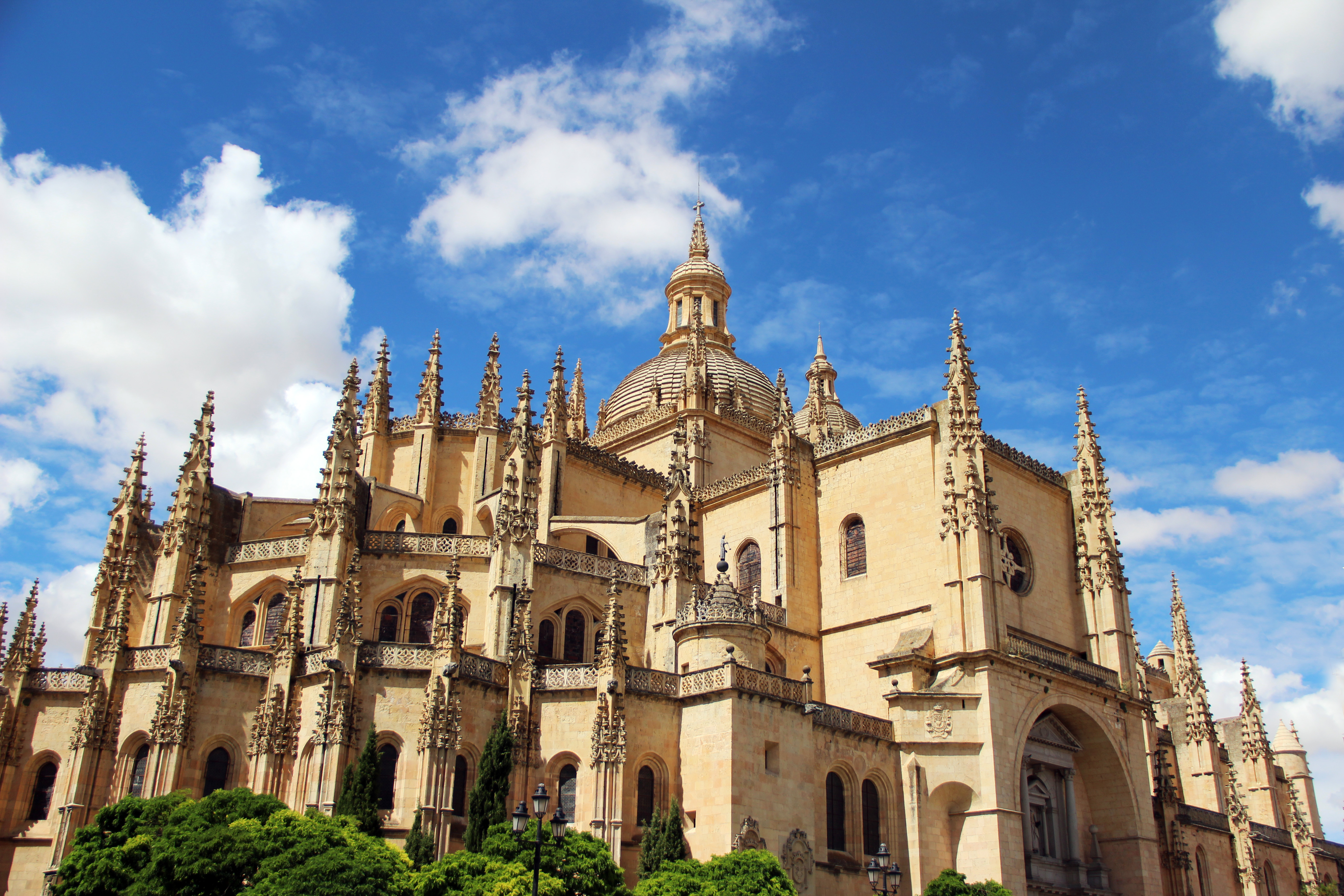 View of the Cathedral of Segovia from Plaza Mayor